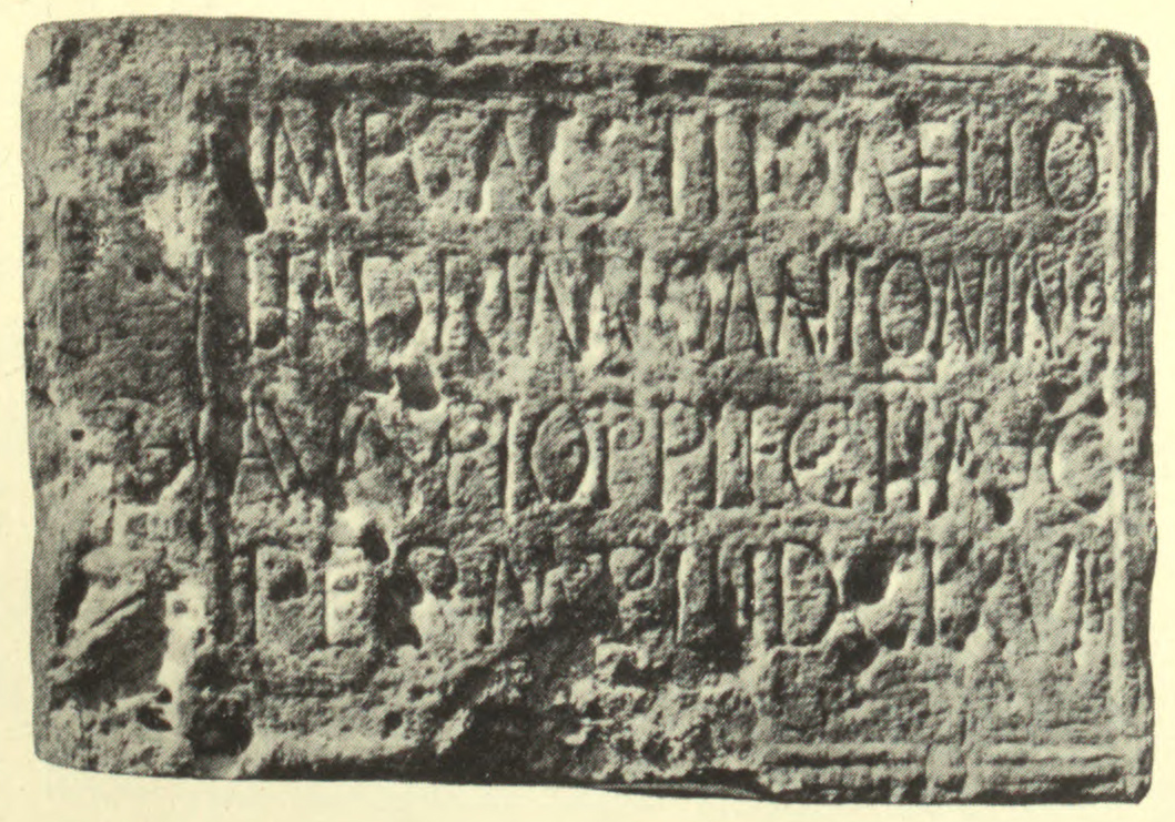 RIB 2186. Distance Slab of the Second Legion